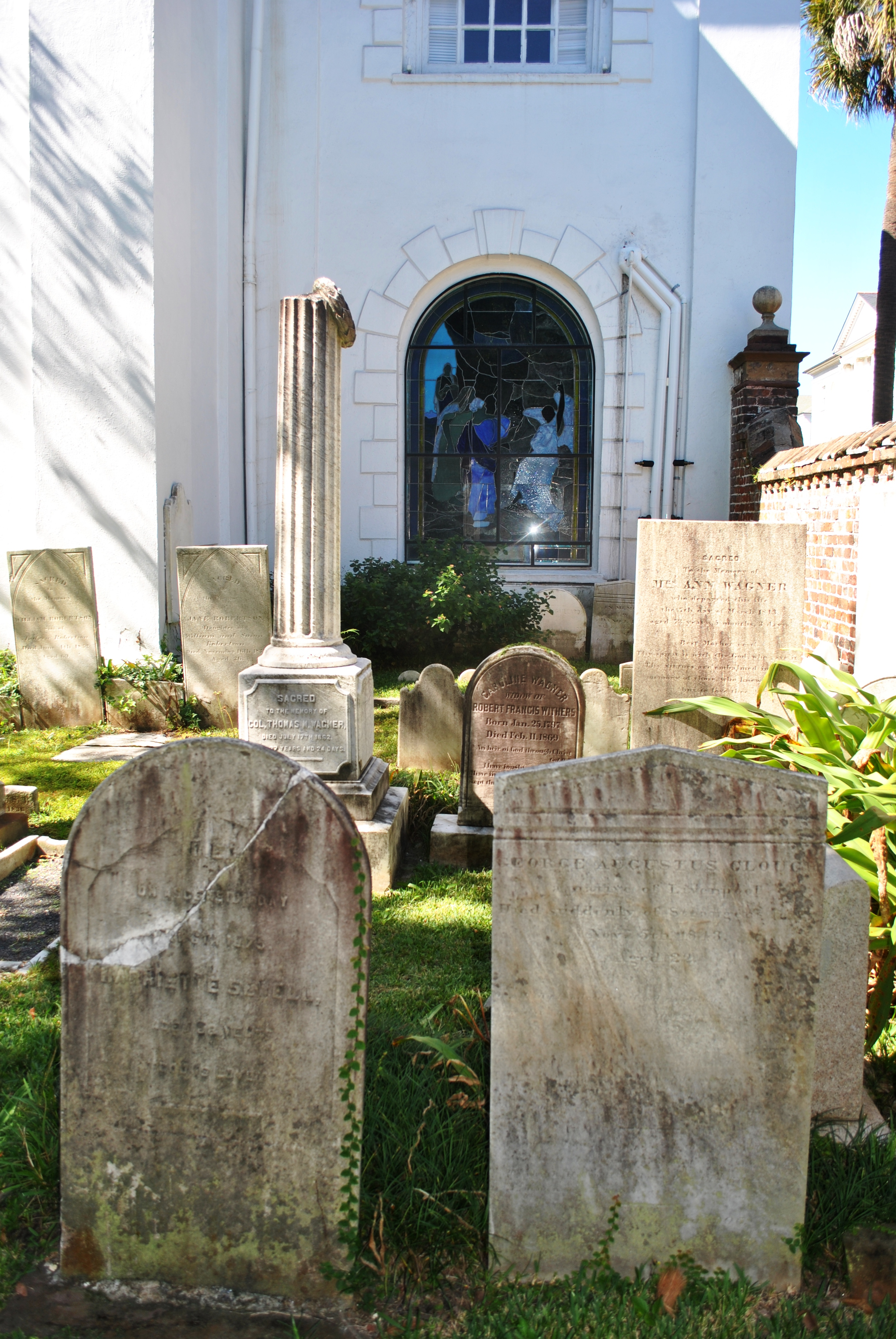 St Michael's Episcopal Church